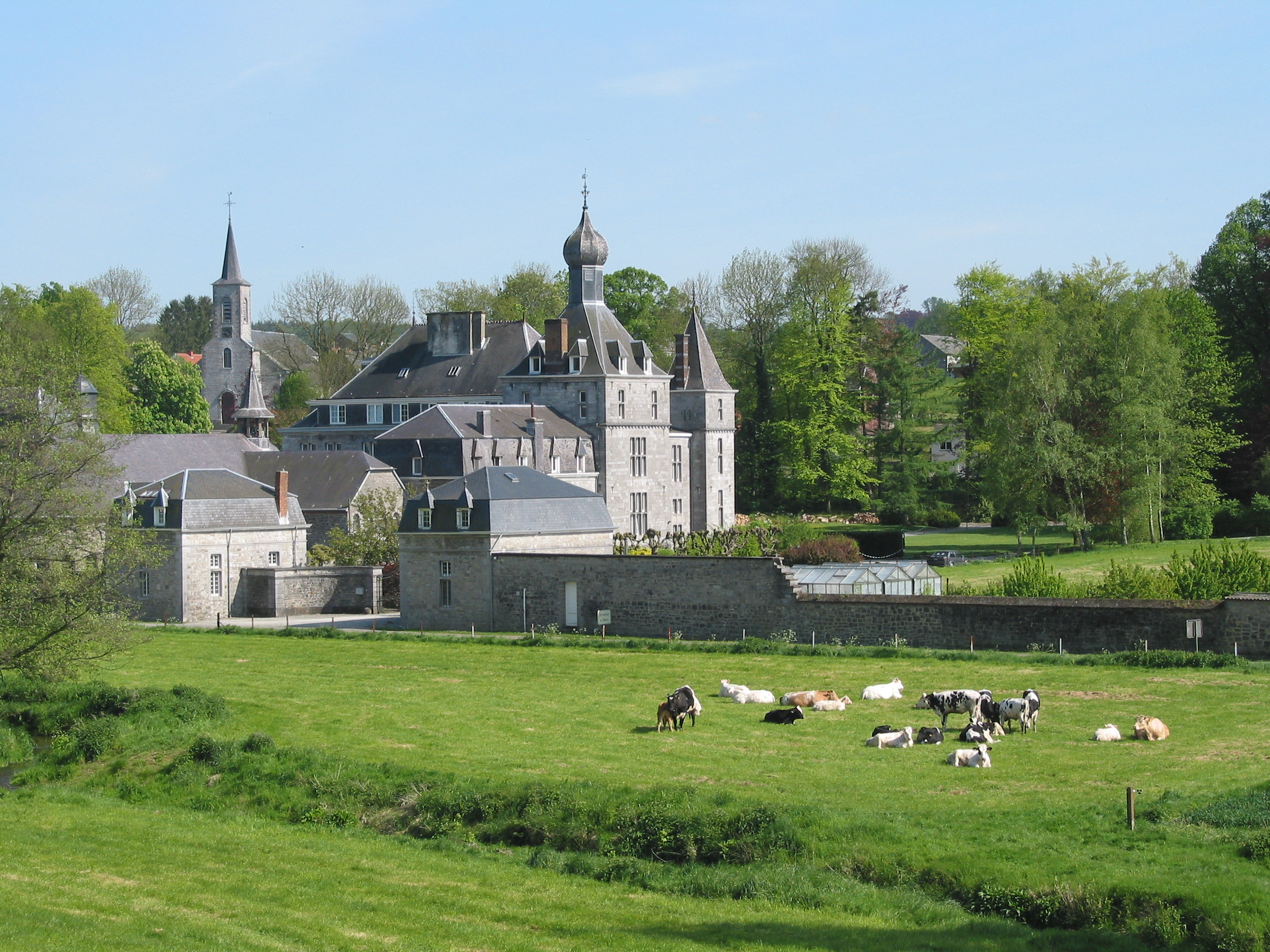 Ermeton-sur-Biert (Belgium), the "Notre-Dame" nunnery and the village.